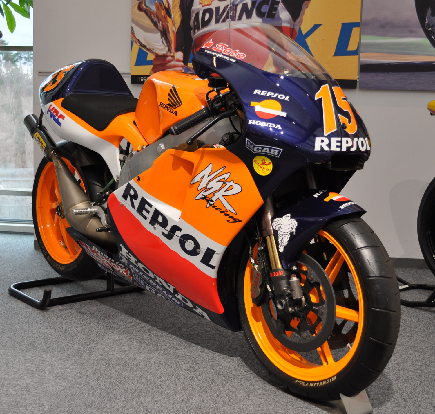 Honda NSR500V (Sete Gibernau, 1999)